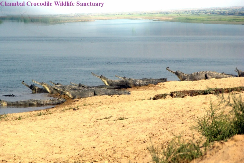 Crocodile senture in chamble devghat